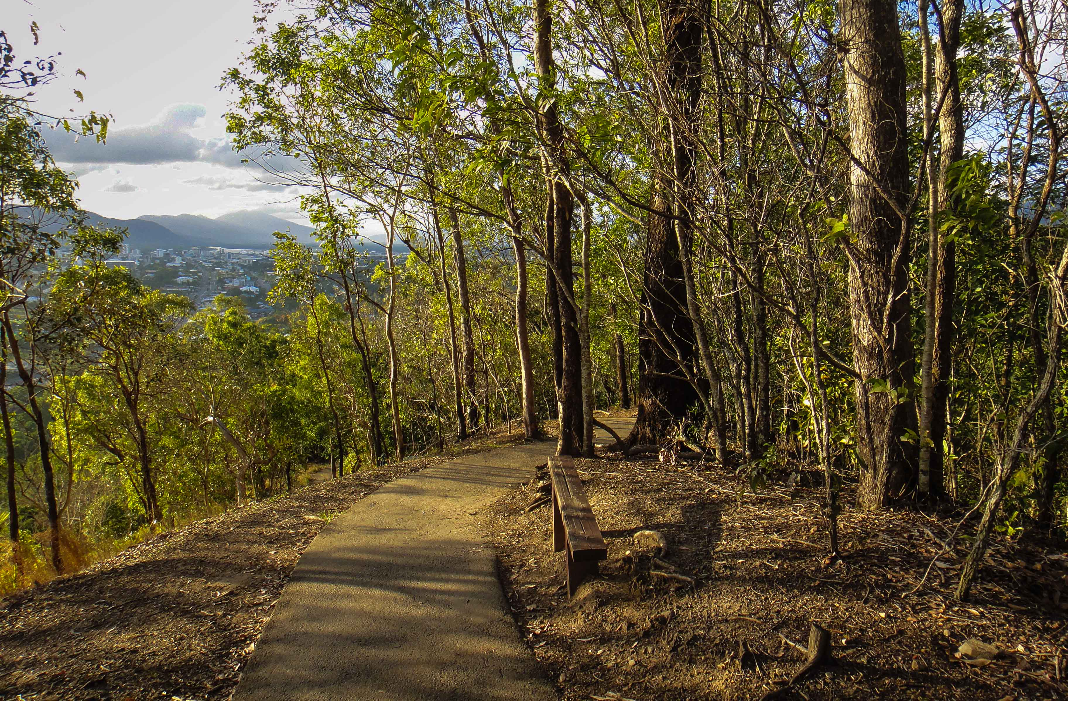 Red Arrow walk on Mount Whitfield